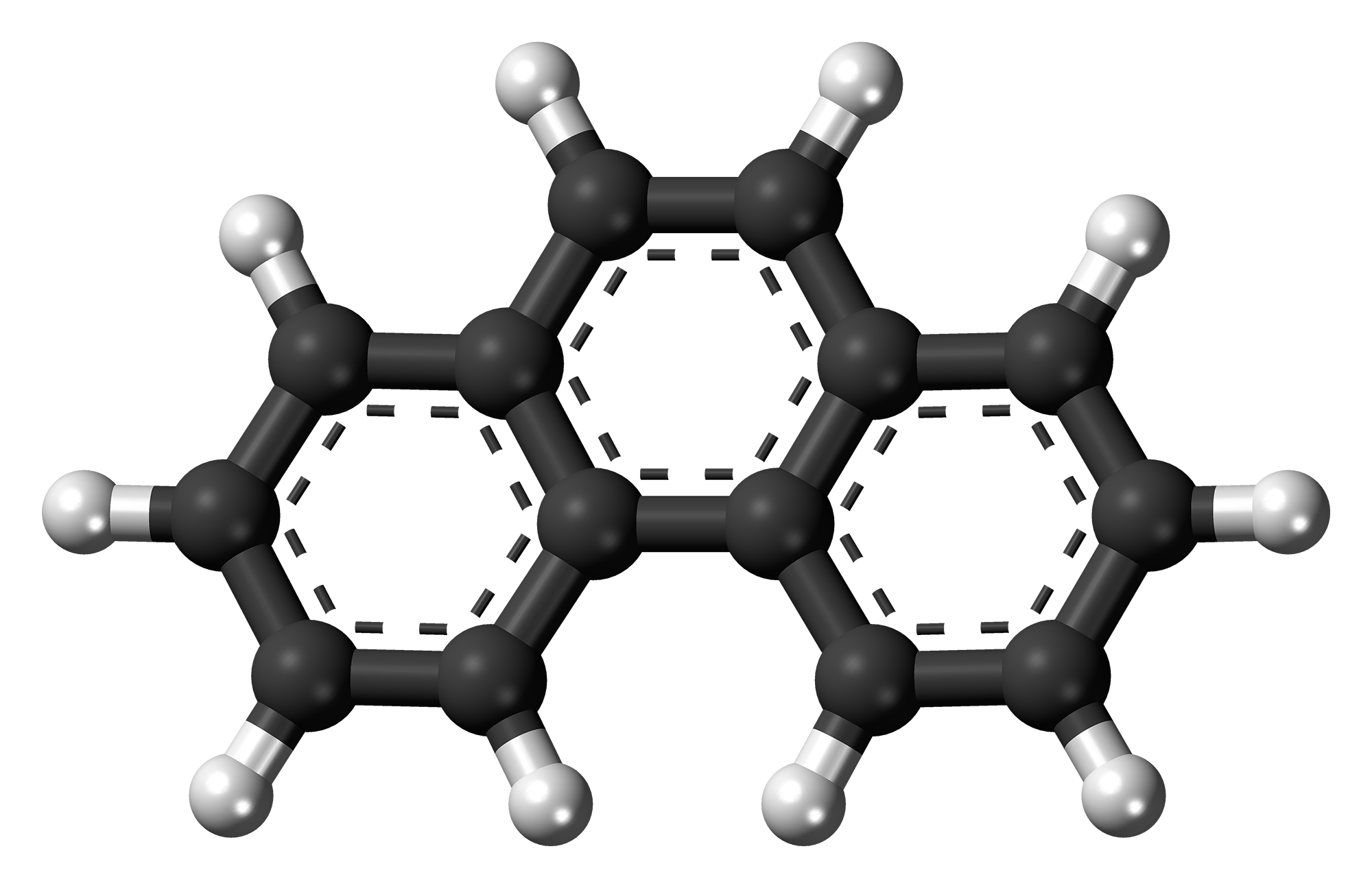 Ball-and-stick model of the phenanthrene molecule, a polycyclic aromatic hydrocarbon. Color code: Carbon, C: black Hydrogen, H: white